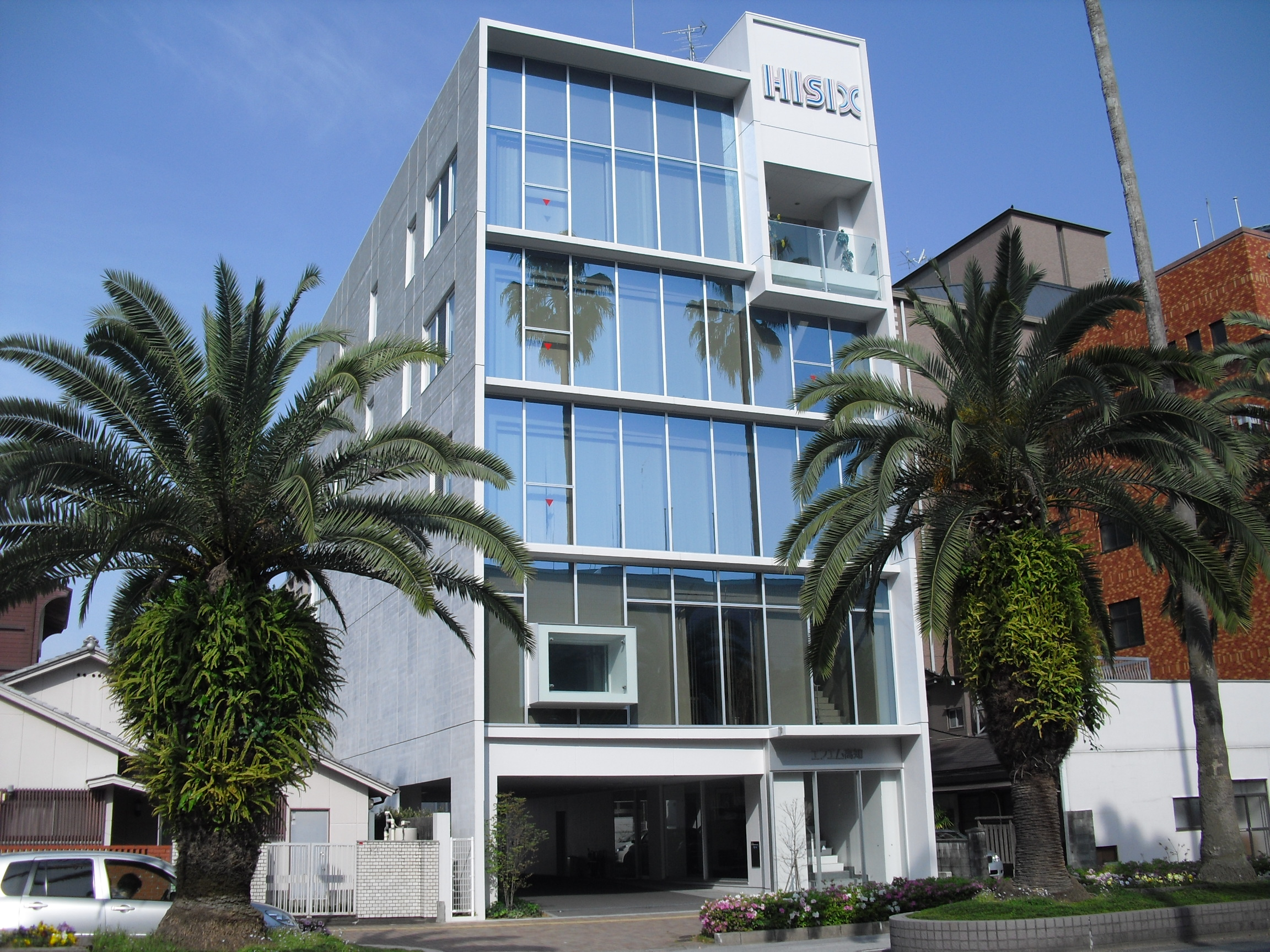 FM Kochi.jpg